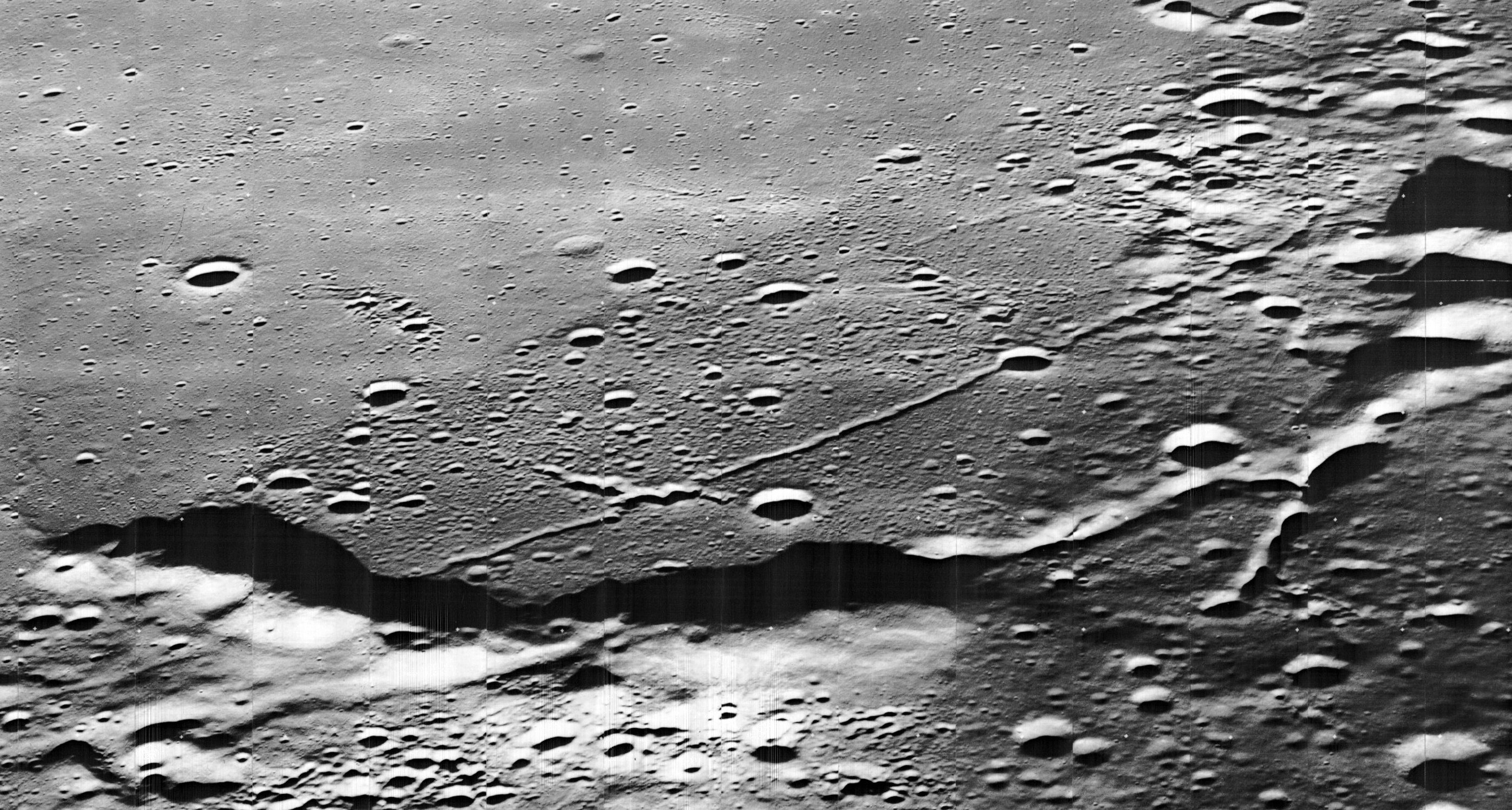 Oblique view of some of the Rimae Maestlin, south of Maestlin, facing west, on the moon.